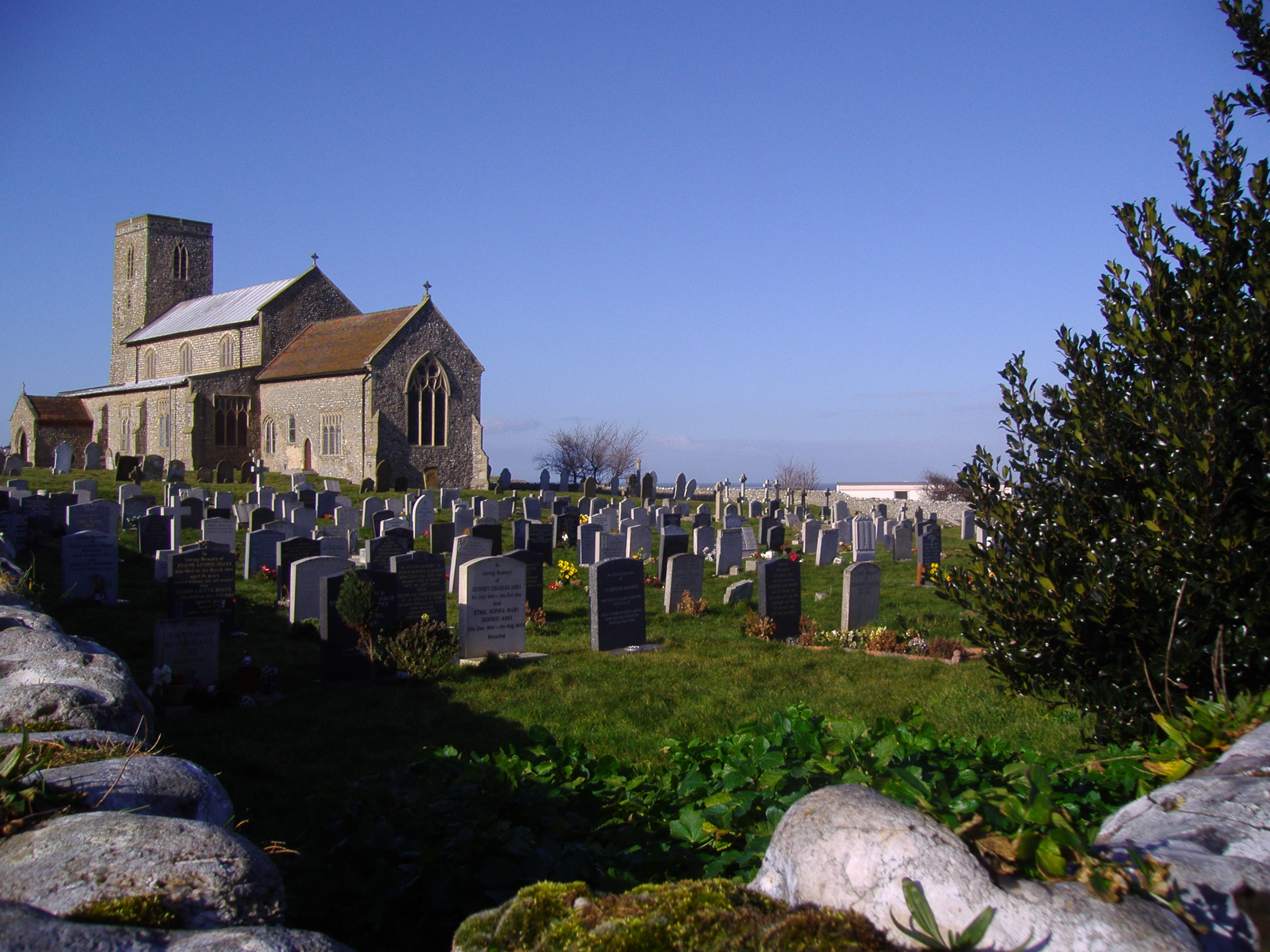 The parish church of All Saints in Beeston Regis, Norfolk. Original upload to en.Wikipedia: Taken on 7 November 2006 11:17:19 Stavros1